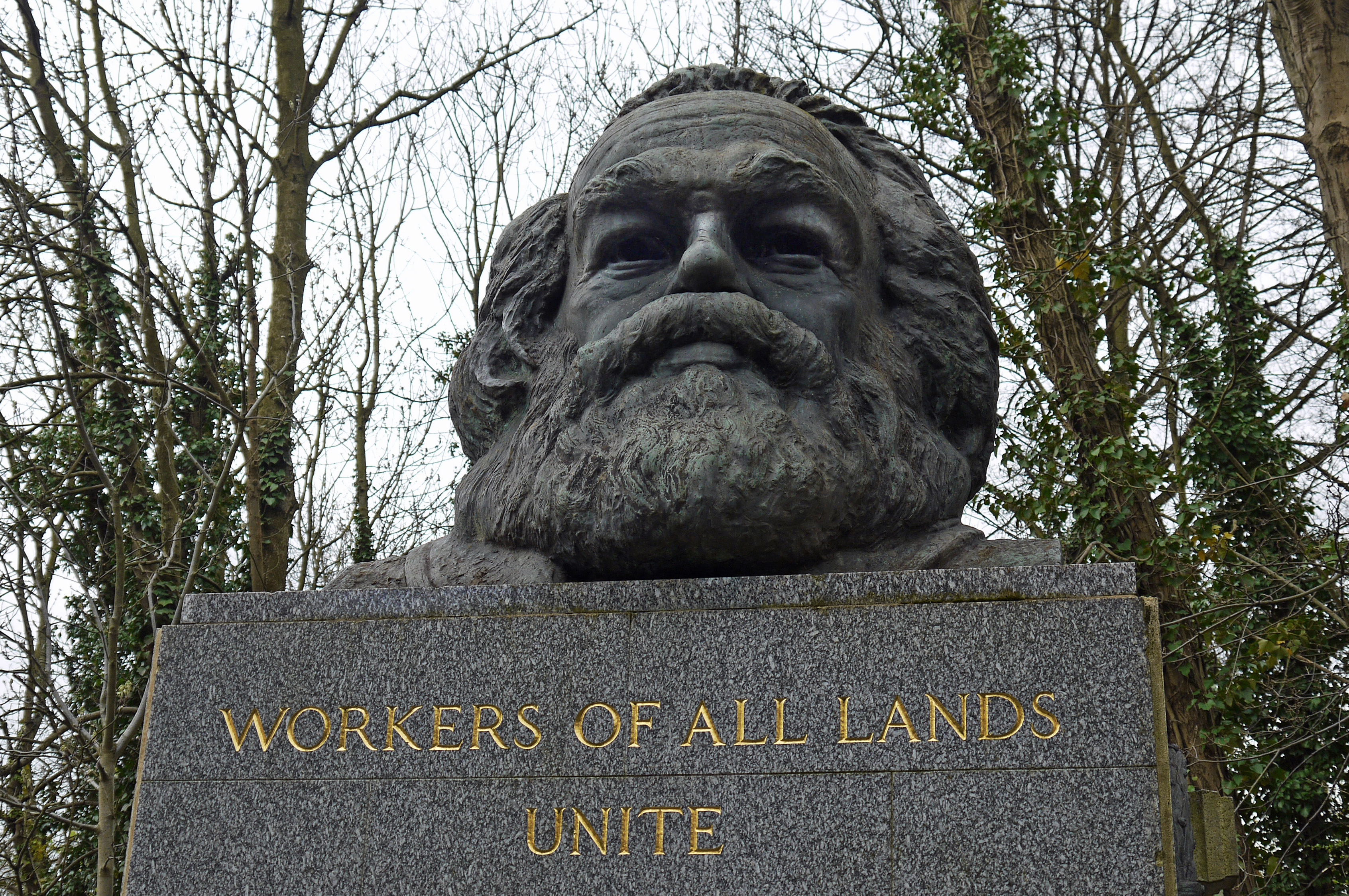 Marx memorial at Highgate Cemetery